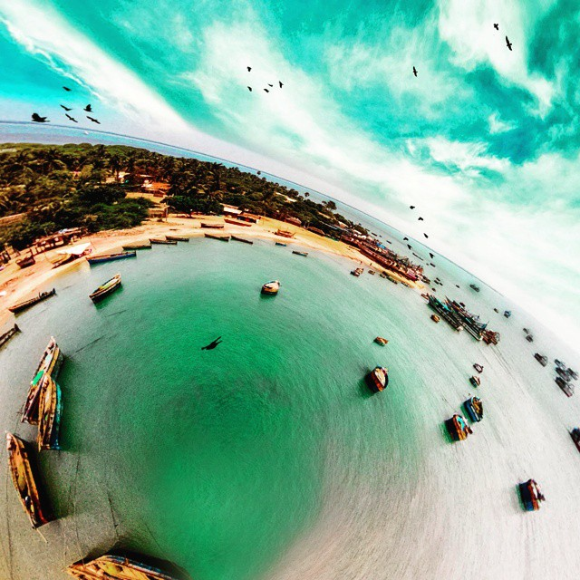 Rameswaram Island Aerial view from Pamban Bridge